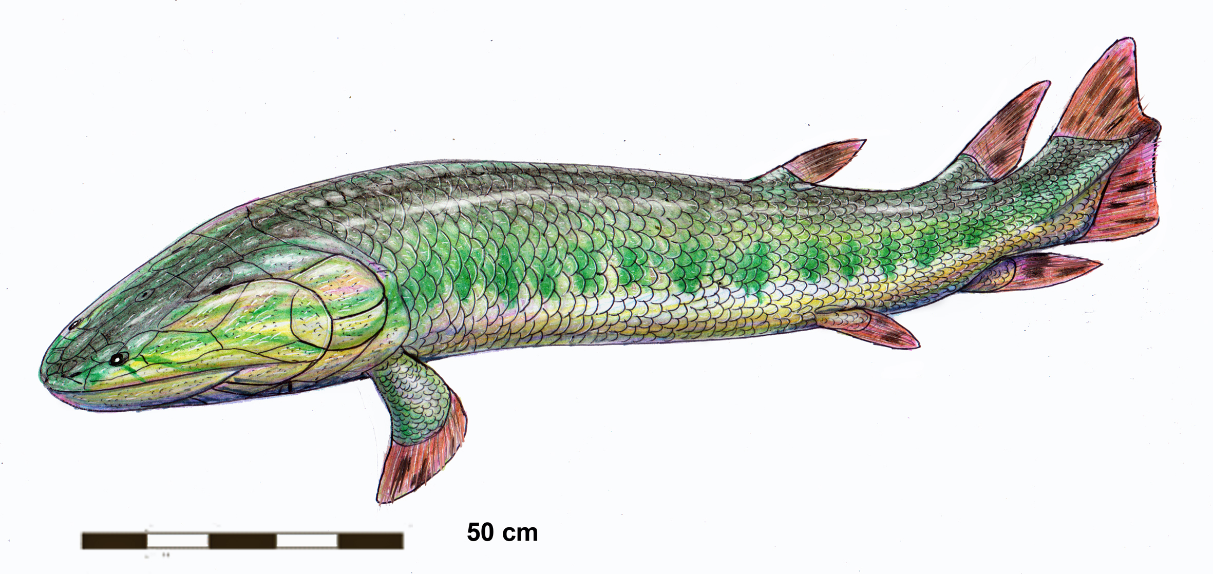 Eusthenodon, giant sarcoptreygian from Late Devonian of Groenland, Europa and Russia